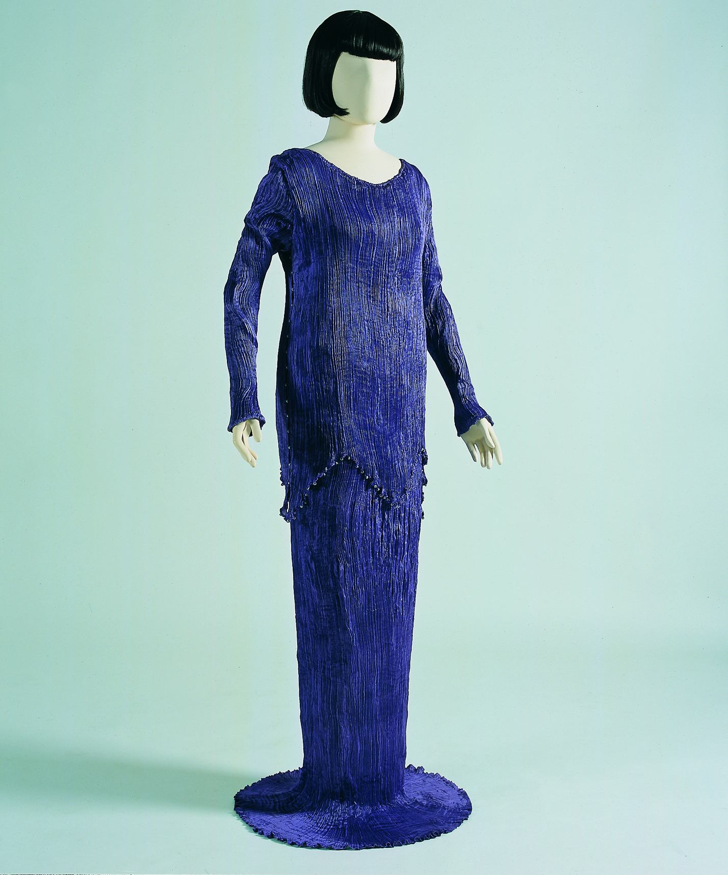 “Peplos” with sleeves. Purple pleated silk. Designed by Mariano Fortuny, c.1910-c.1940. Formerly owned by Gloria Vanderbil. Collection of the Peloponnesian Folklore Foundation, Greece (museum number: 2001.6.339)